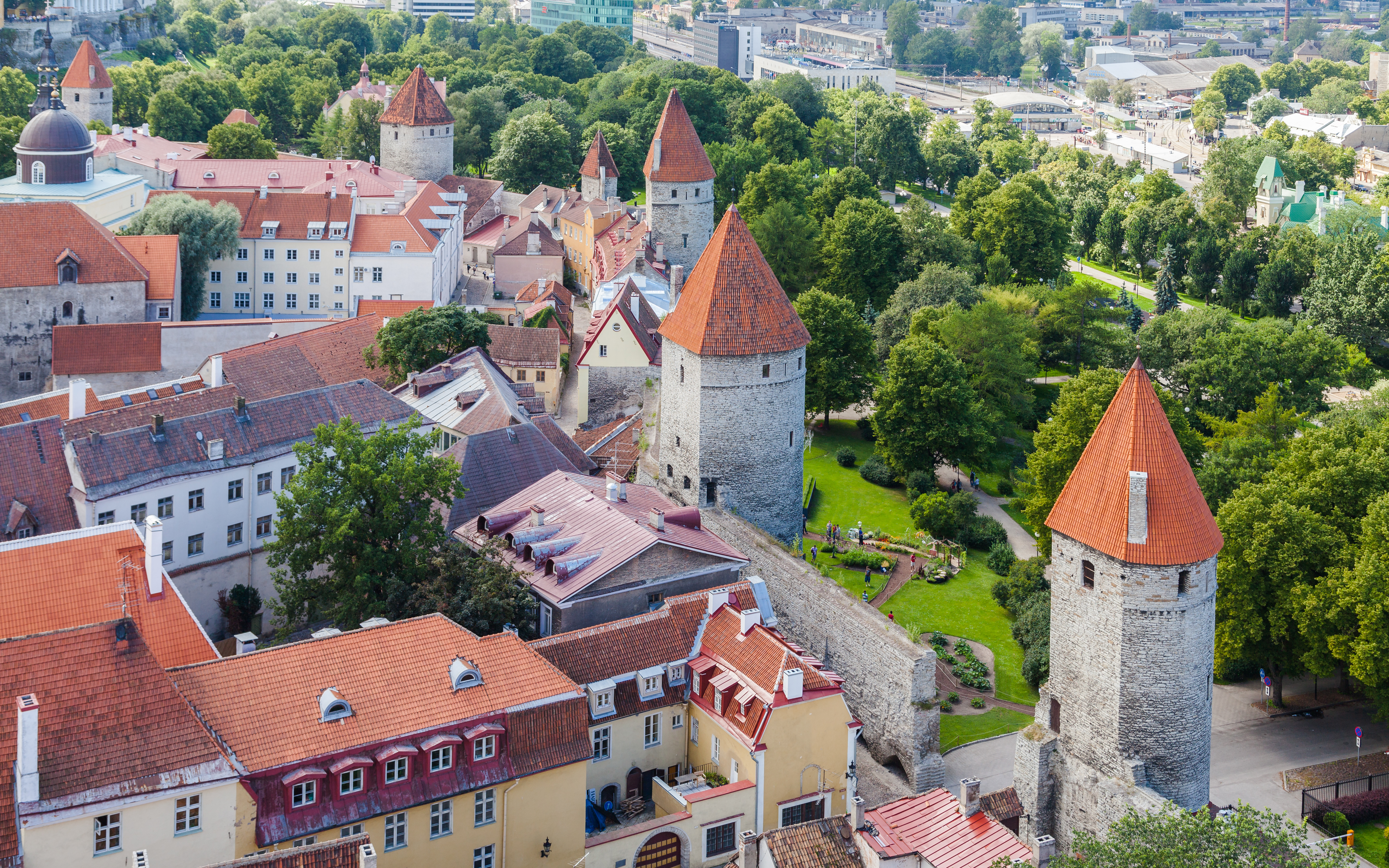 View of Tallinn from St. Olaf's church, Estonia